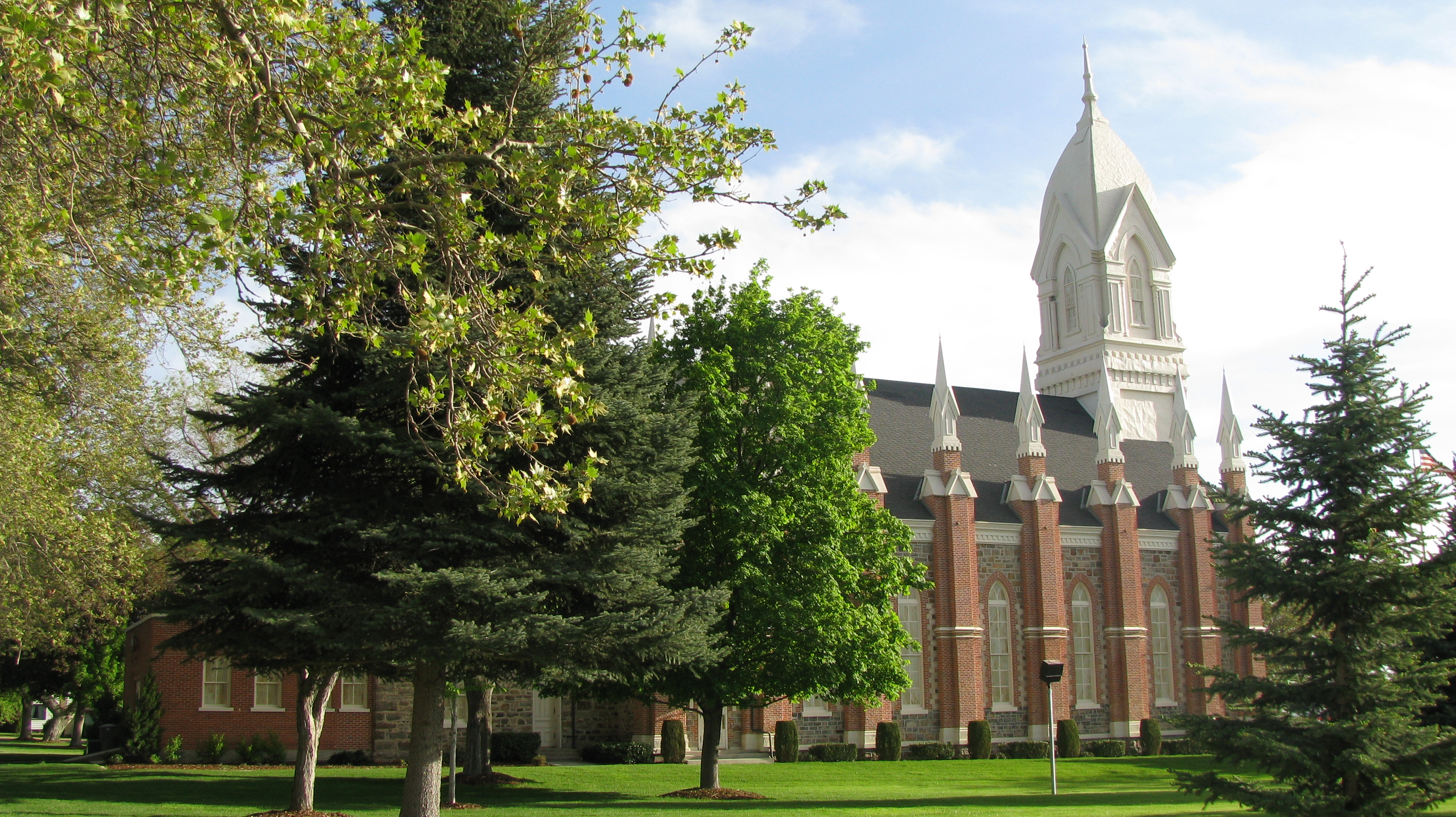 Box Elder Stake Tabernacle of The Church of Jesus Christ of Latter-day Saints located in Brigham City, Utah